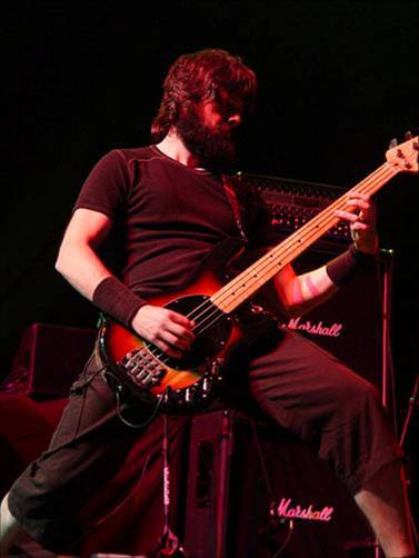 Roberto García performing live at on May 2006 at the Mägo de Oz Fest in Mexico.